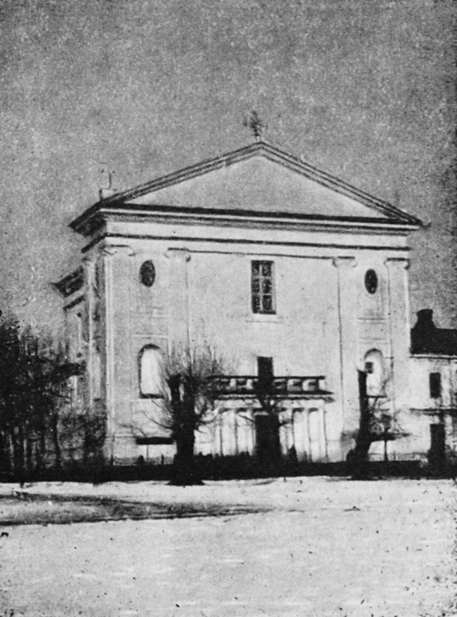 Catholic Church in Połacak